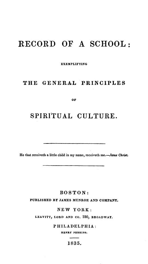 Title page for Record of a School: Exemplifying the General Principles of Spiritual Culture by Elizabeth Palmer Peabody with Amos Bronson Alcott. The school it refers to is the short-lived Temple School in Boston, Massachusetts. BOSTON: PUBLISHED BY JAMES MUNROE AND COMPANY. NEW YORK: LEAVITT, LORD AND CO. 180, BROADWAY. PHILADELPHIA: HENRY PERKINS.